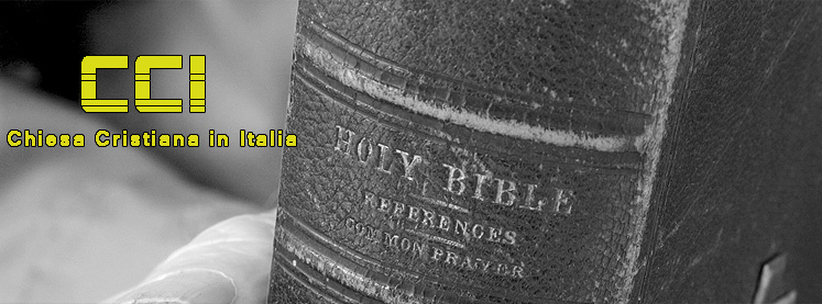 Logo of the Christian Church in Italy